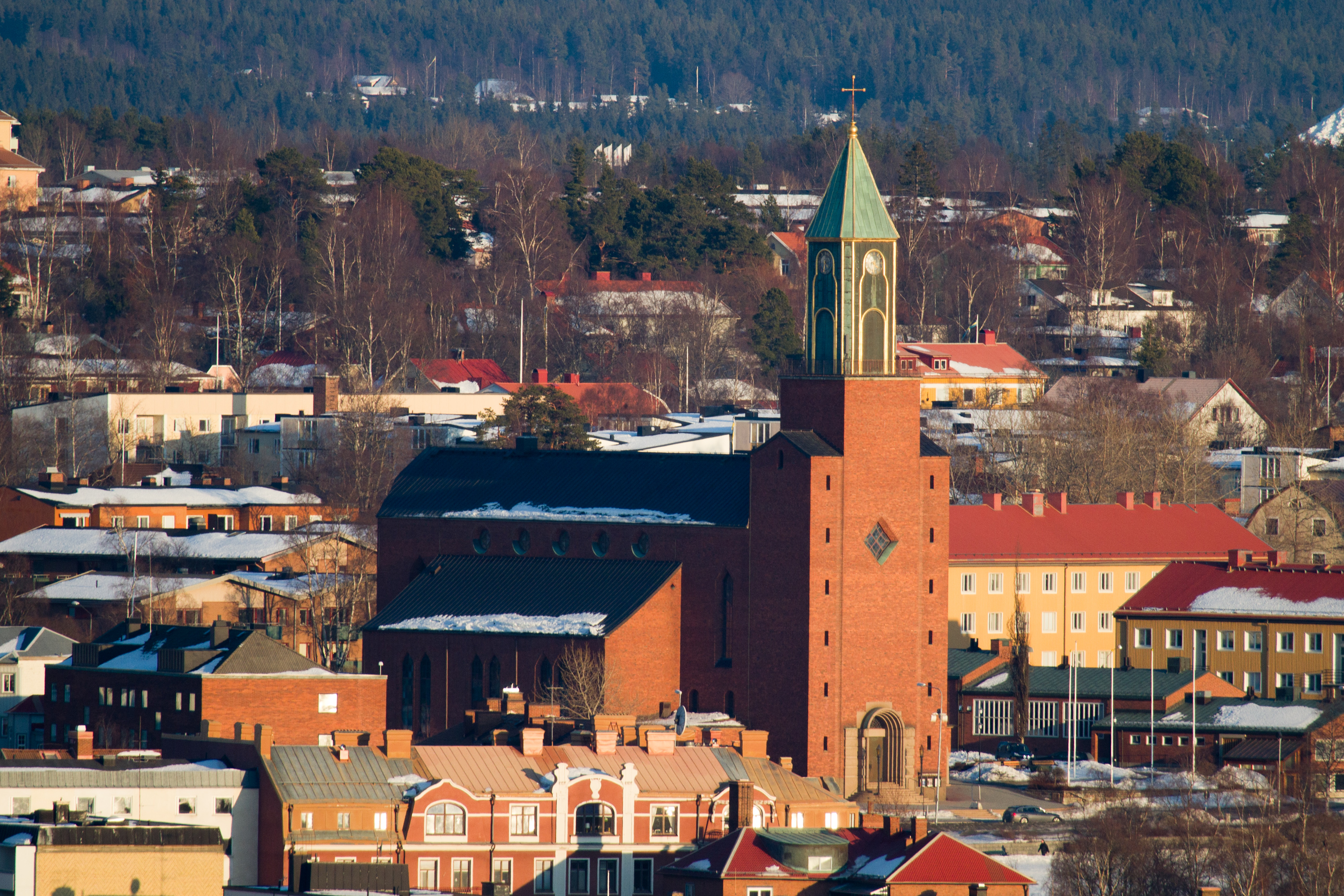 "Stora kyrkan" ("Big church"), Östersund, Diocese of Härnösand, Sweden. Seen from Frösön.